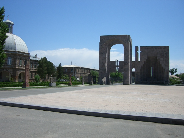 Front space of Gevorgian Jemaran, the gate of Saint Gregory and the open-air altar